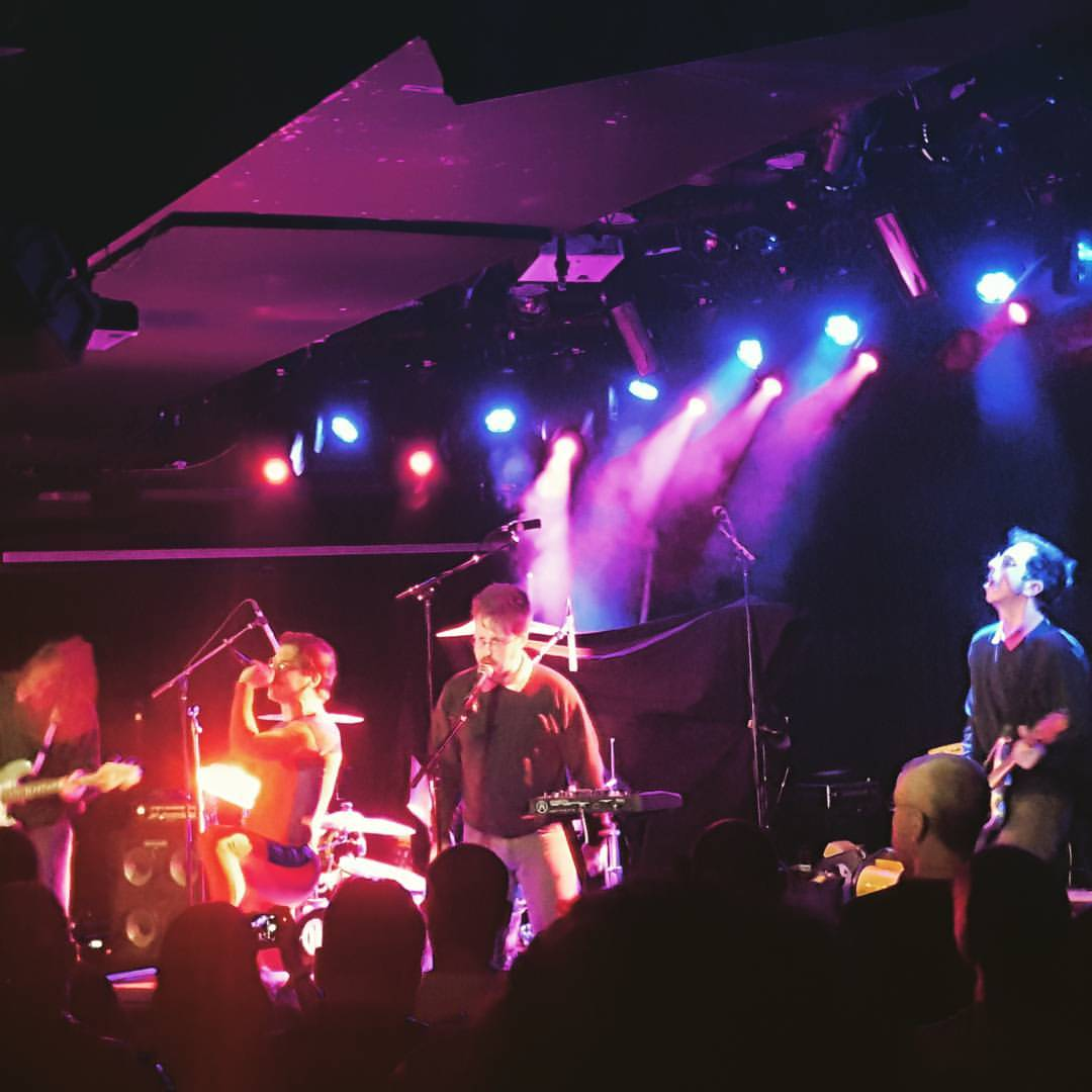 Parody band Okilly Dokilly.